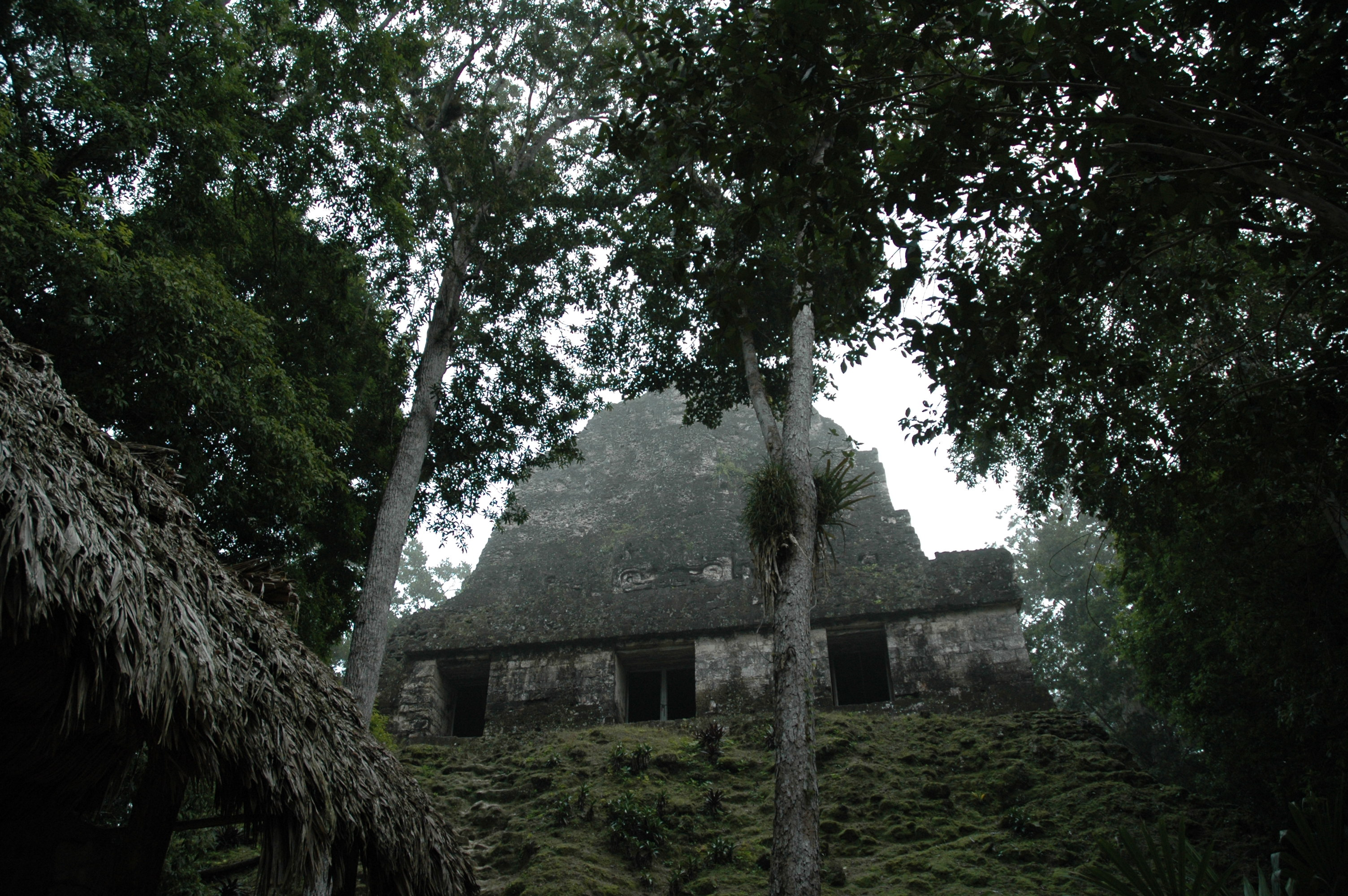 Temple VI, only if you have time...